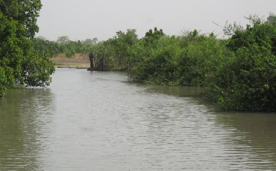 Mangroves